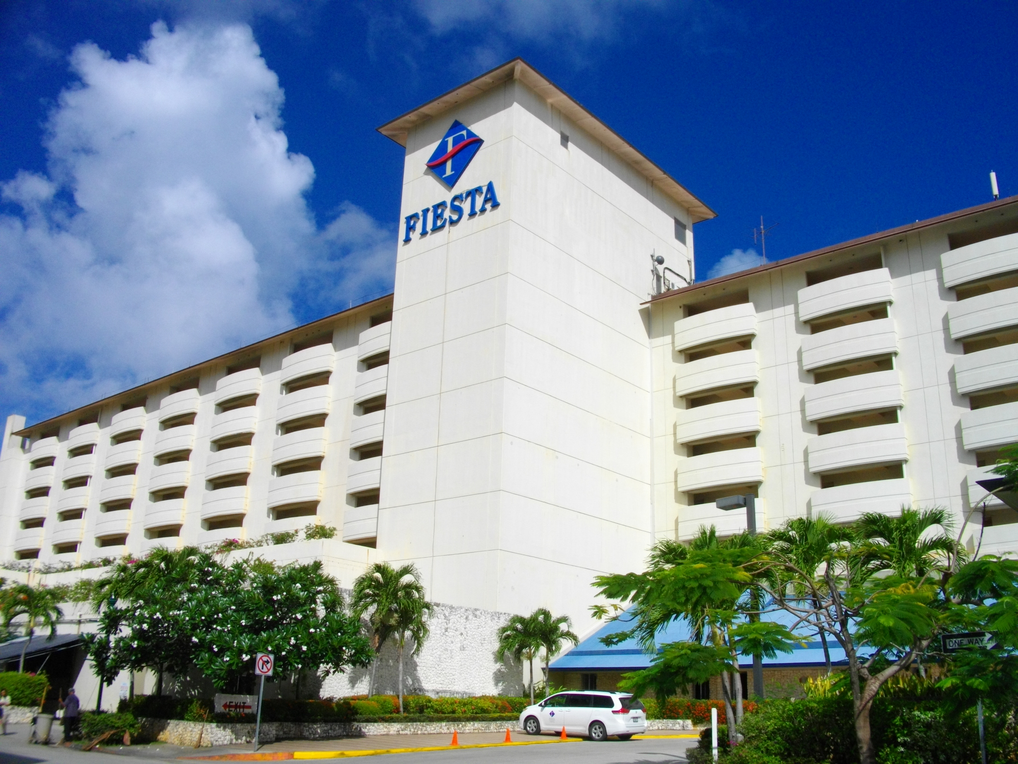 Fiesta Resort & Spa Saipan